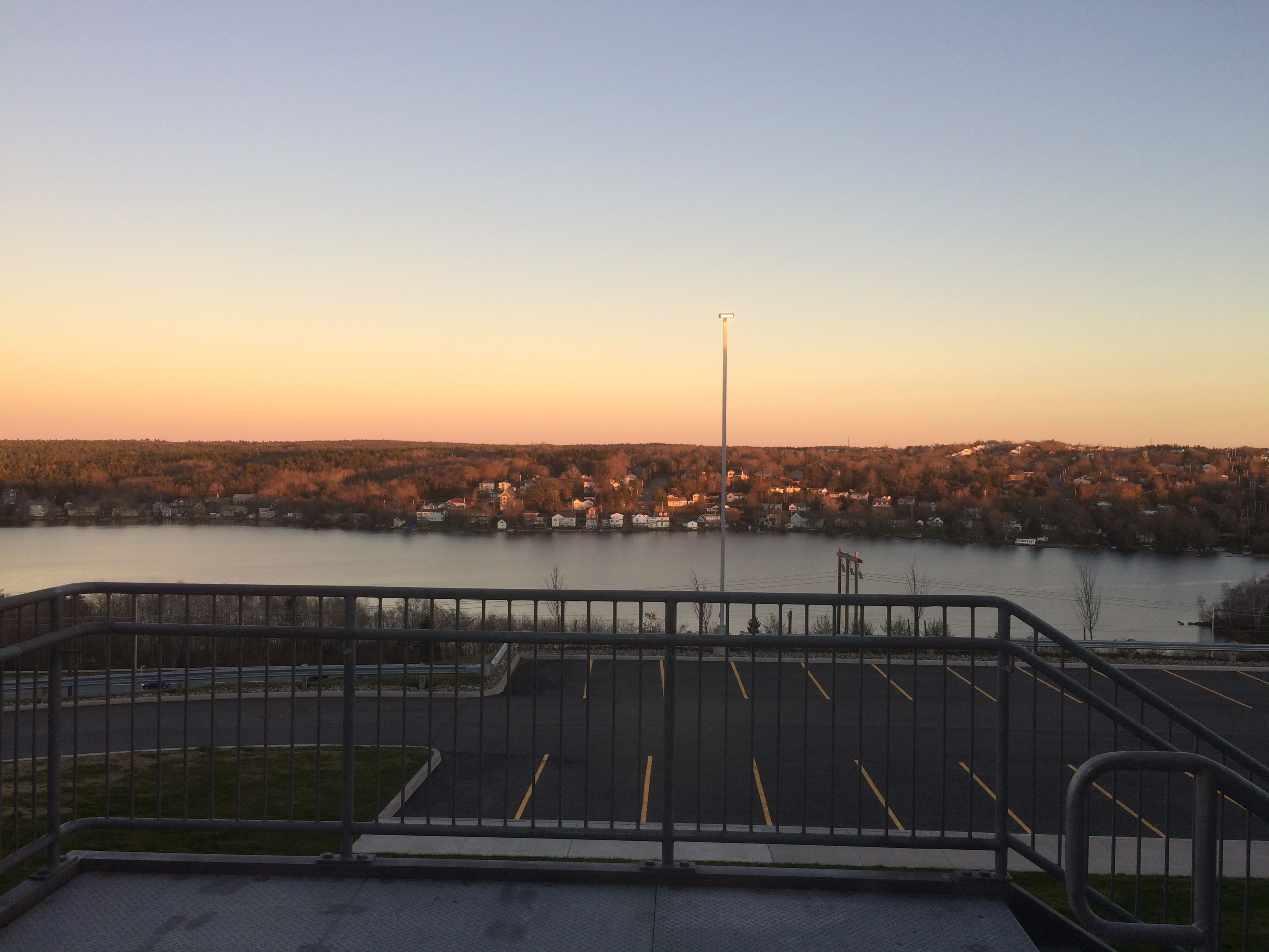 View from rear of Halifax IKEA